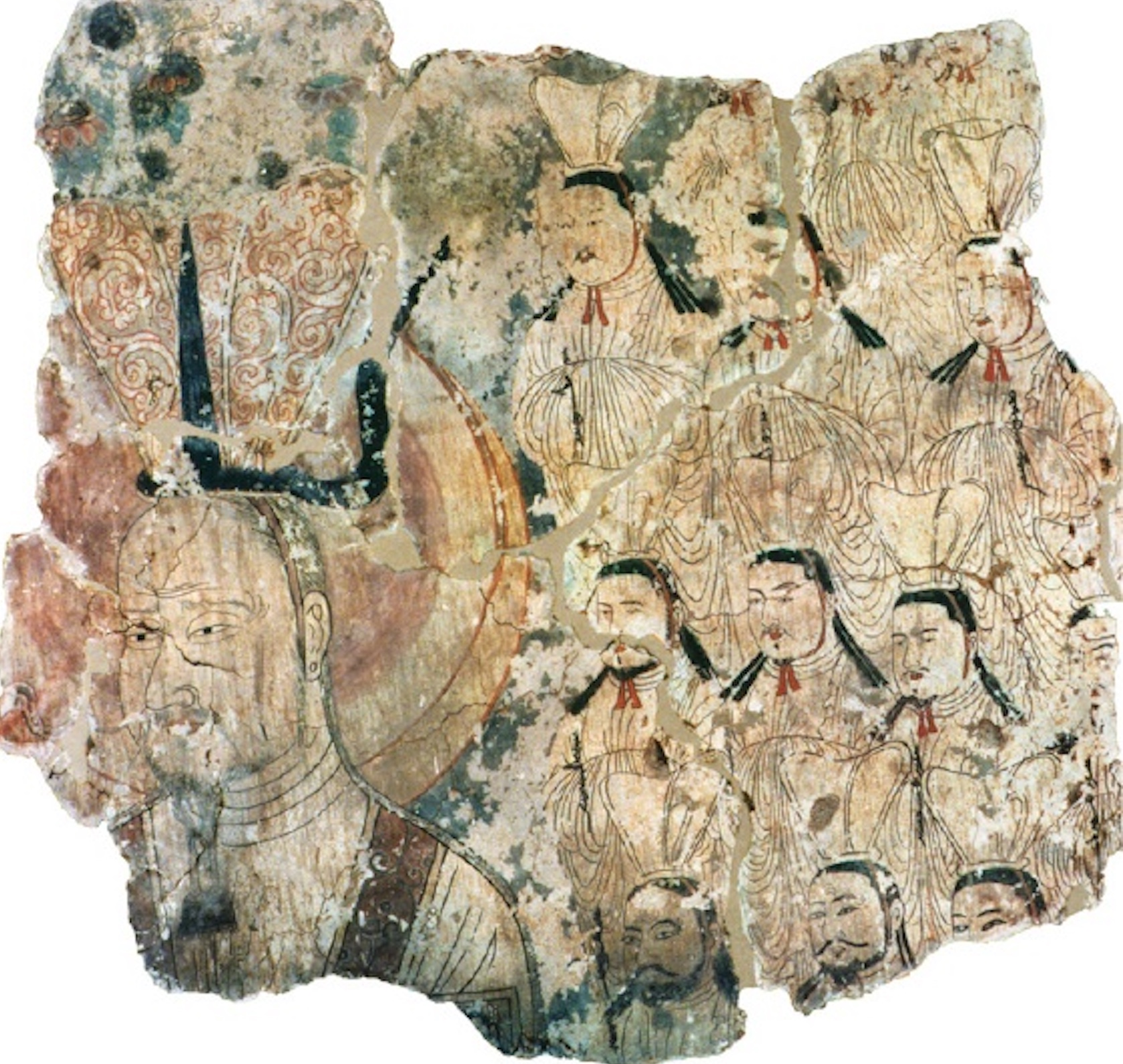 Fragment of a Turpan Manichaen wall painting with ritual scene recovered from ruin K at Qocho.